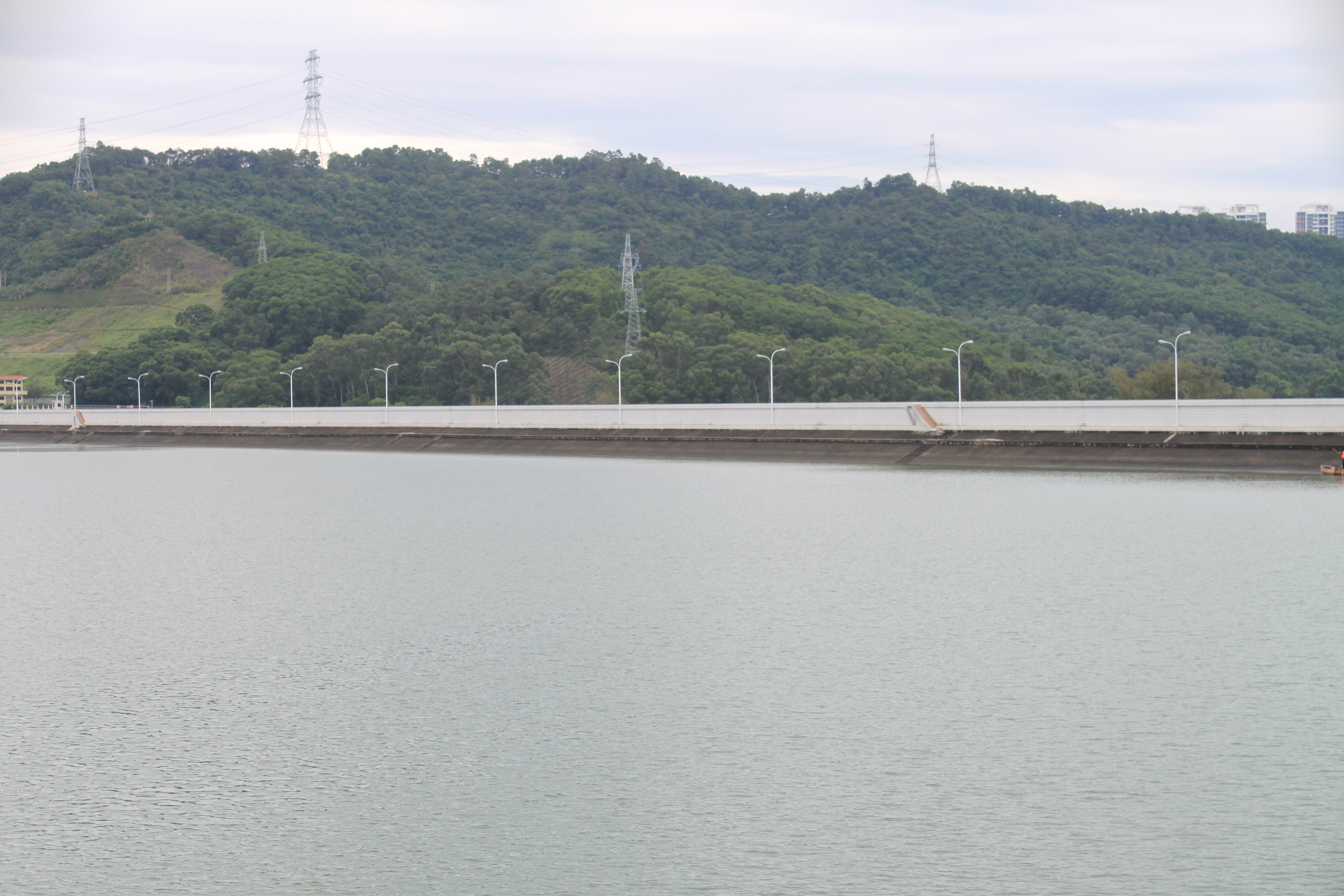 View of Shenzhen Reservoir Dam. Shenzhen Reservoir is the largest reservoir located in Luohu District, Shenzhen, Guangdong, China.